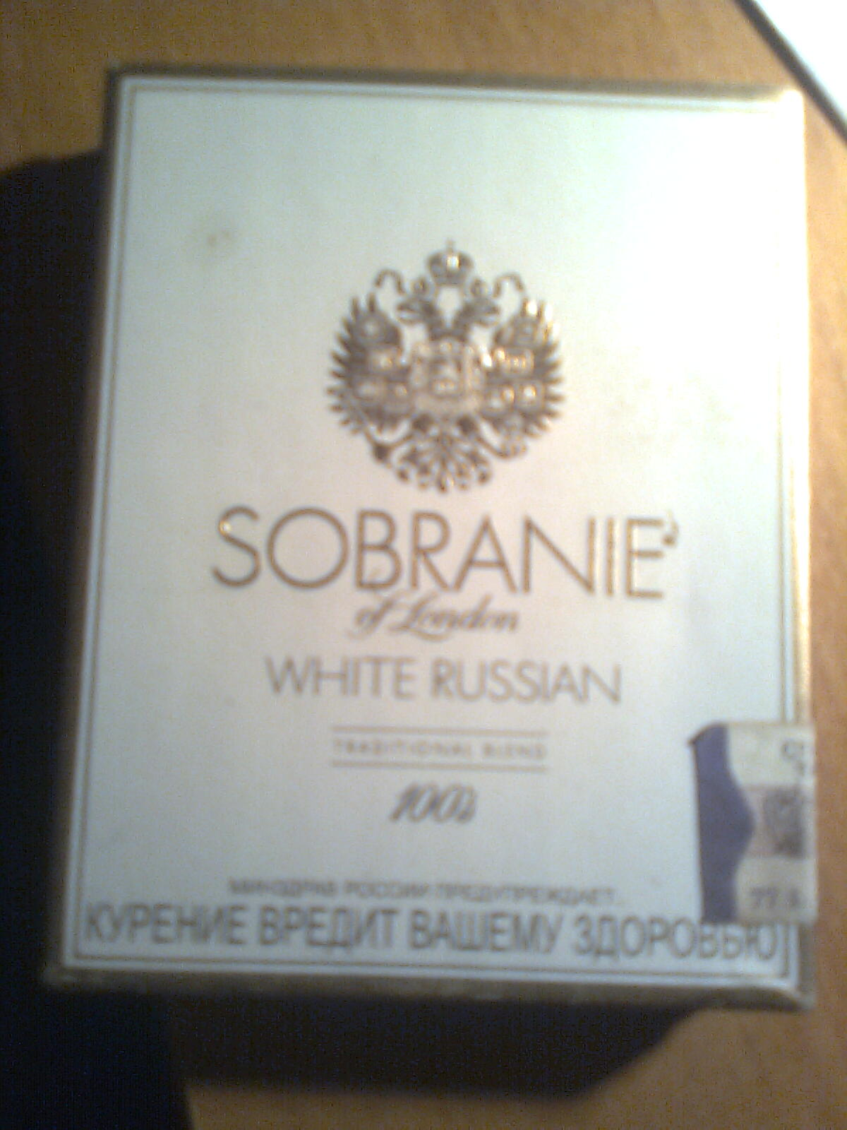 Sobranie White Russian